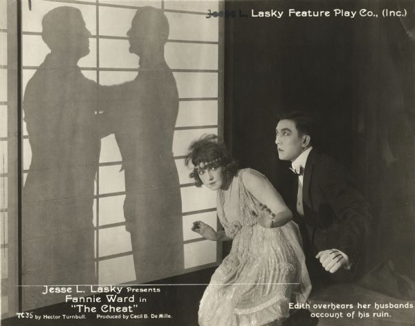 Fannie Ward (playing Edith Hardy) and Sessue Hayakawa (as Hishuru Tori) in a scene still for the 1915 silent drama The Cheat.